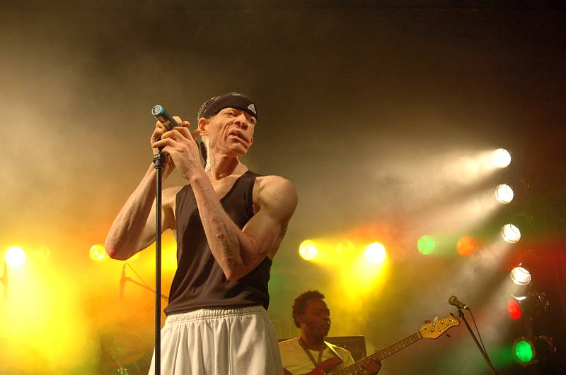 Dancehall artist Yellowman performing with Sagittarius Band at Reggae Jam Bersenbrück 2007Yelloman backed by Sagrittarius Band